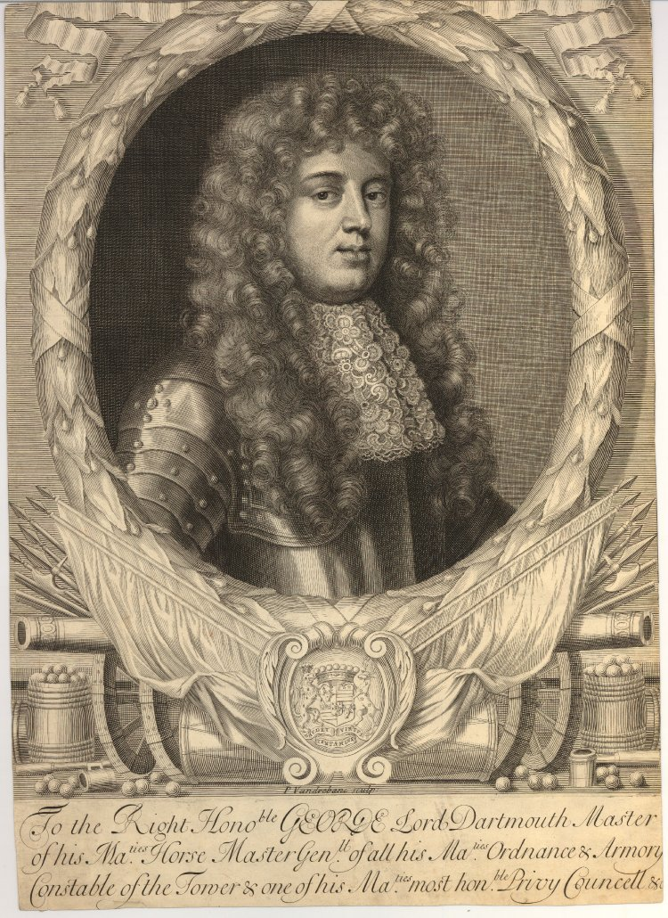 "To the Right Honble George Lord Dartmouth," portrait of George Legge, 1st Baron Dartmouth, by the British printmaker Peter Vandrebanc. Engraving. 489 mm x 349 mm. Courtesy of the British Museum, London.